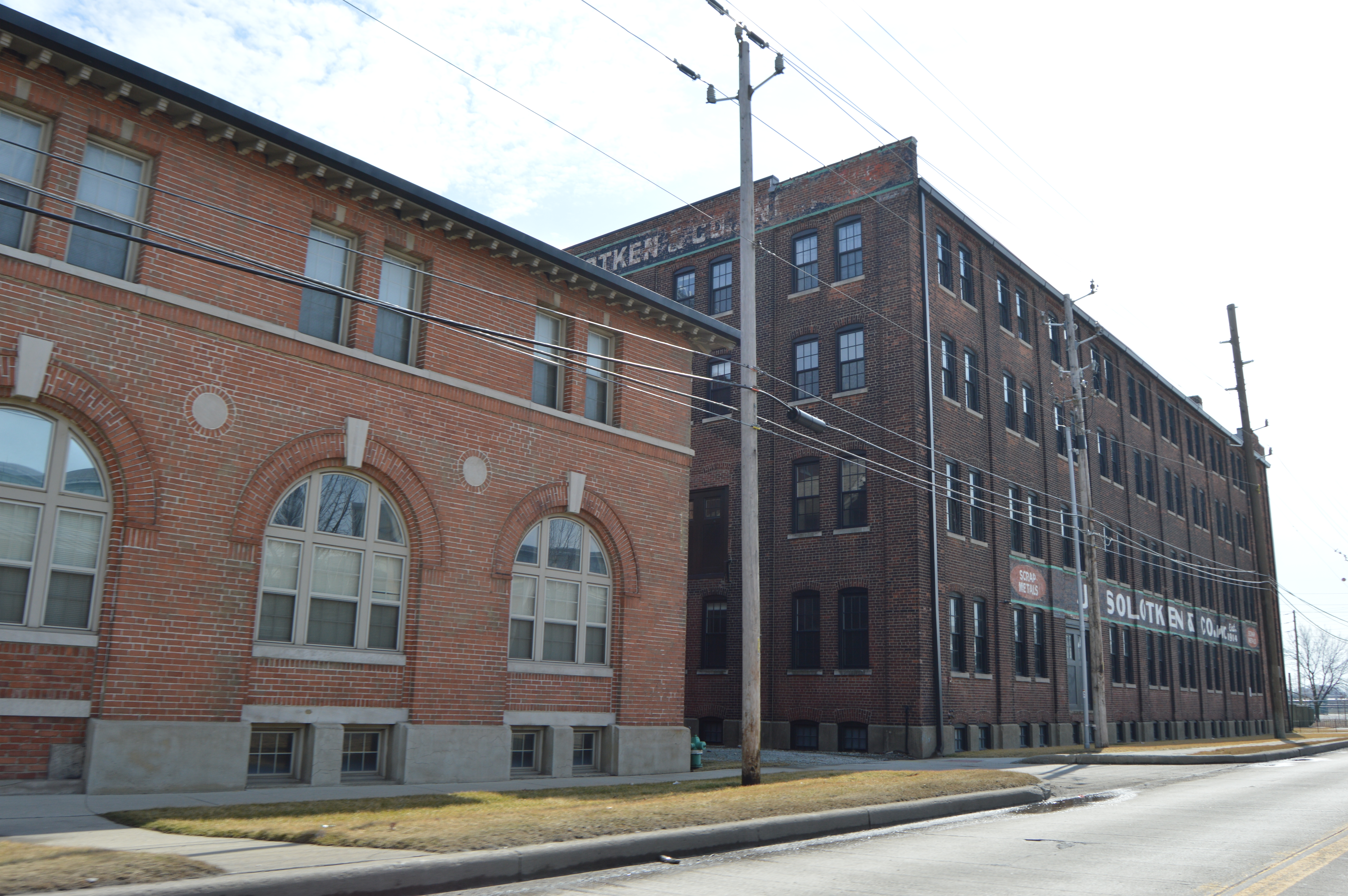 Front of some of the buildings in the H. Lauter Company Complex, located at 35-101 S. Harding Street in Indianapolis, Indiana, United States. Now an apartment complex, the former factory is listed on the National Register of Historic Places.